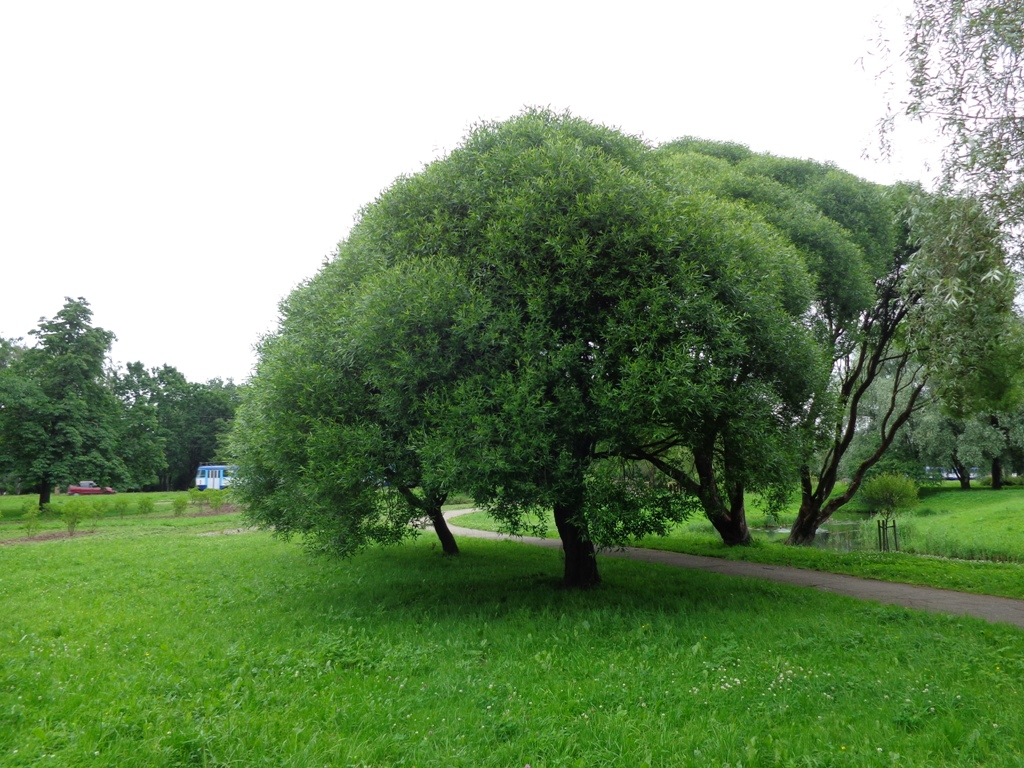 Salix fragilis. Found in Latvia.